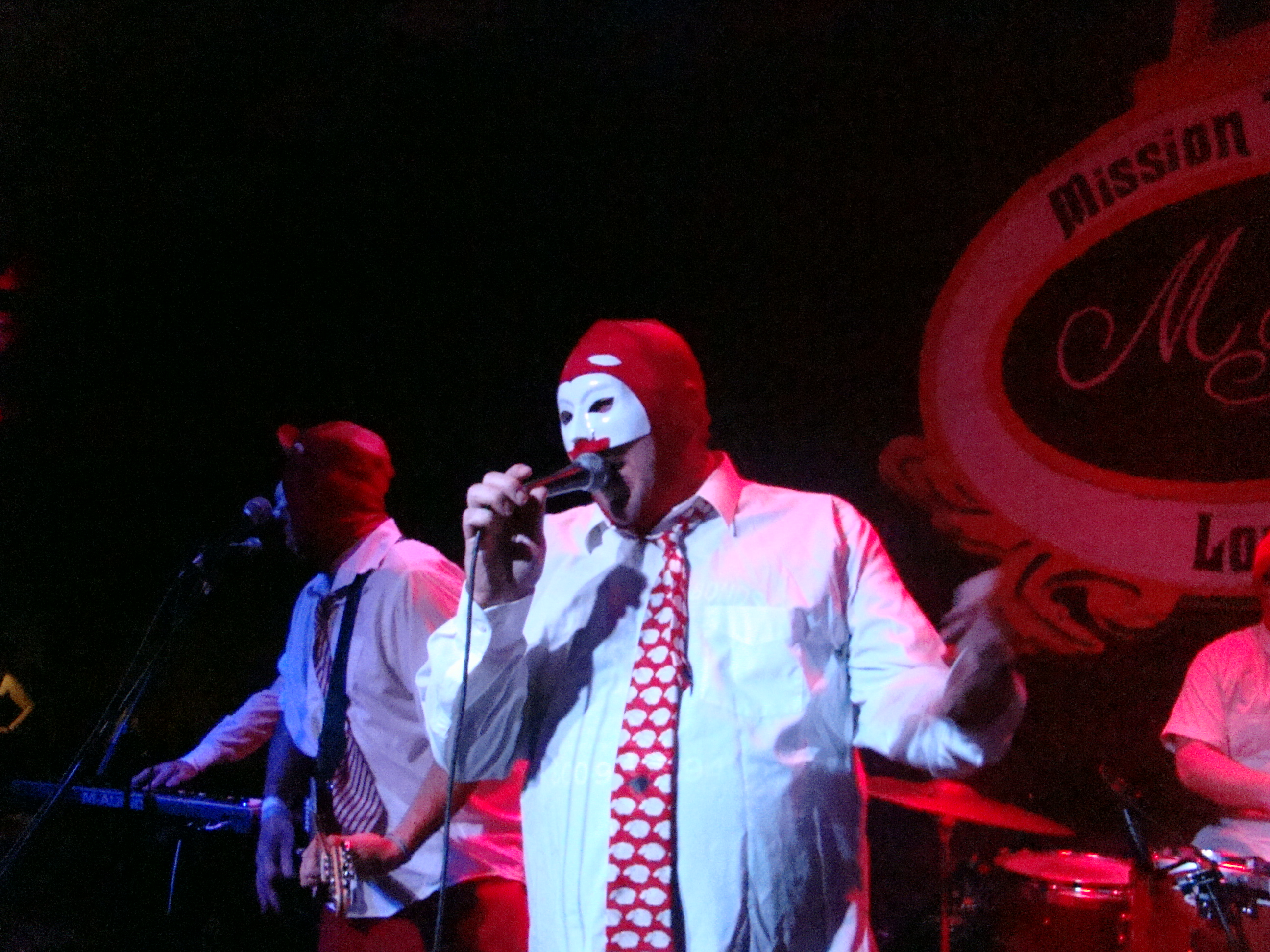 at mission tobacco